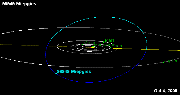 Orbit of asteroid (99949) Miepgies